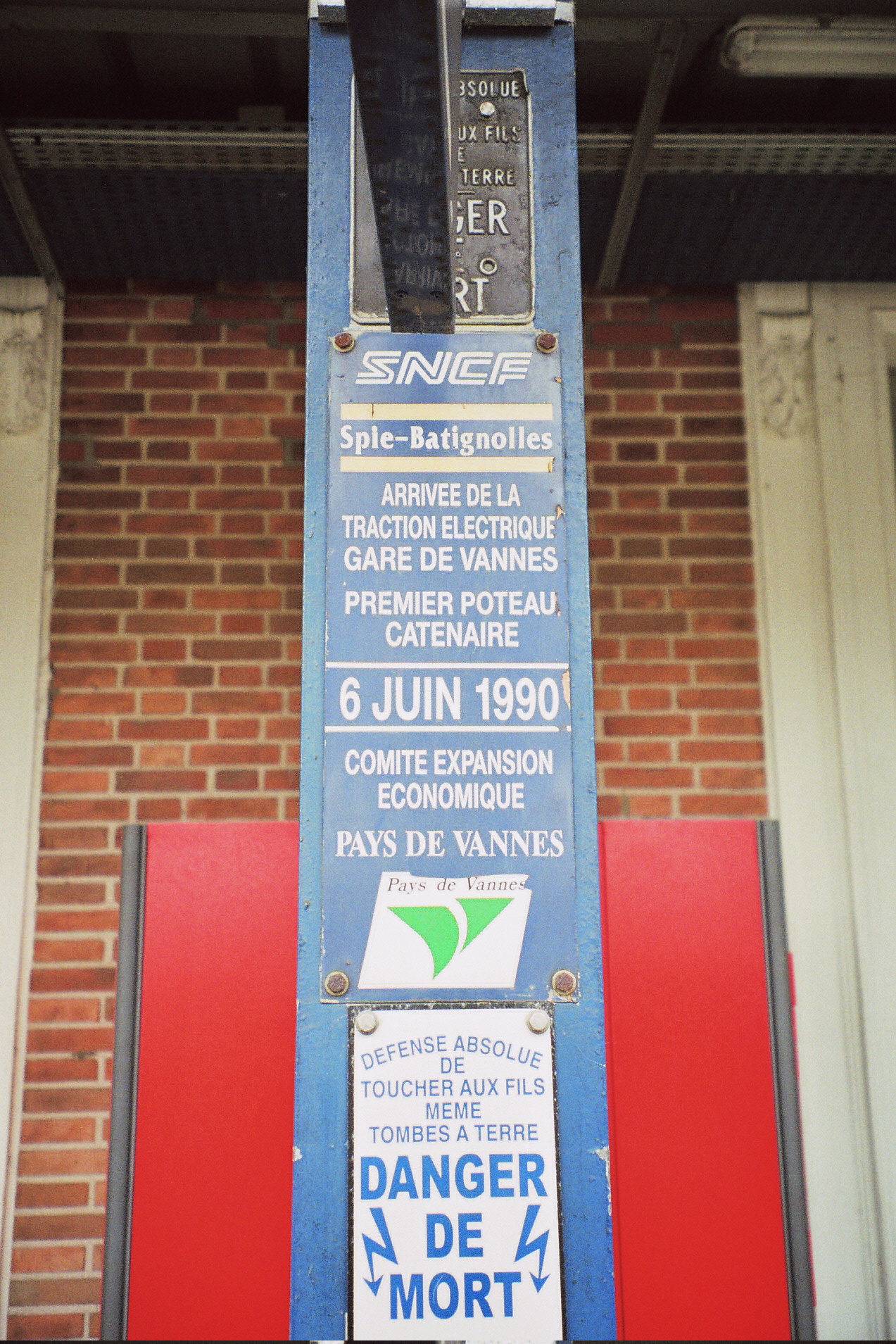 Sign remembering the electrification of the Savenay–Landerneau railway in the station of Vannes, Brittany, France.